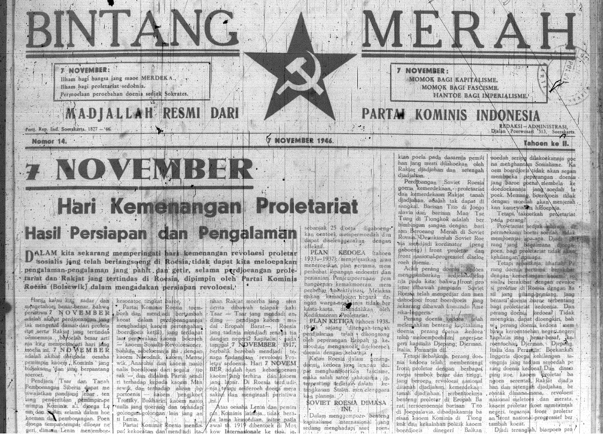 This is the front page of Bintang Merah (red star), an Indonesian Communist (PKI) weekly magazine. This issue is from November 7th 1946.